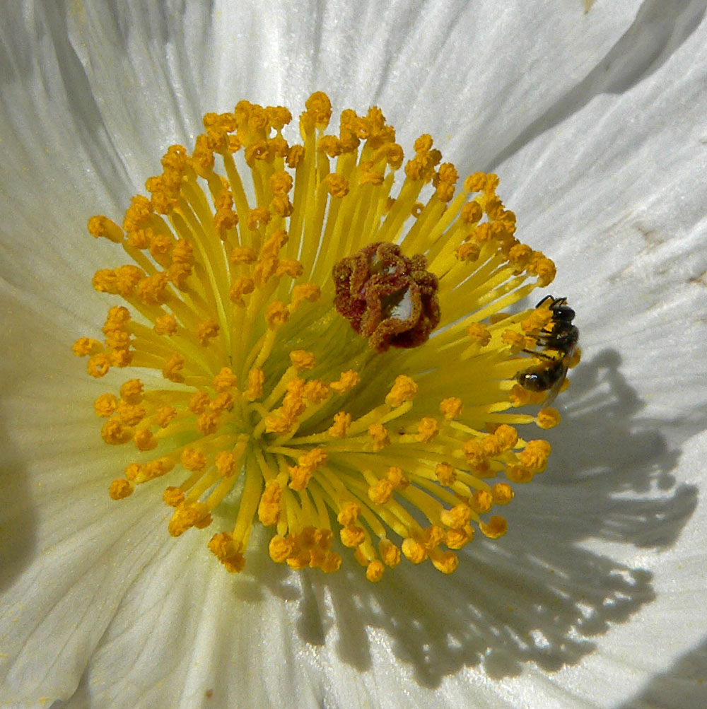 Argemone munita in Kyle Canyon, Spring Mountains, southern Nevada